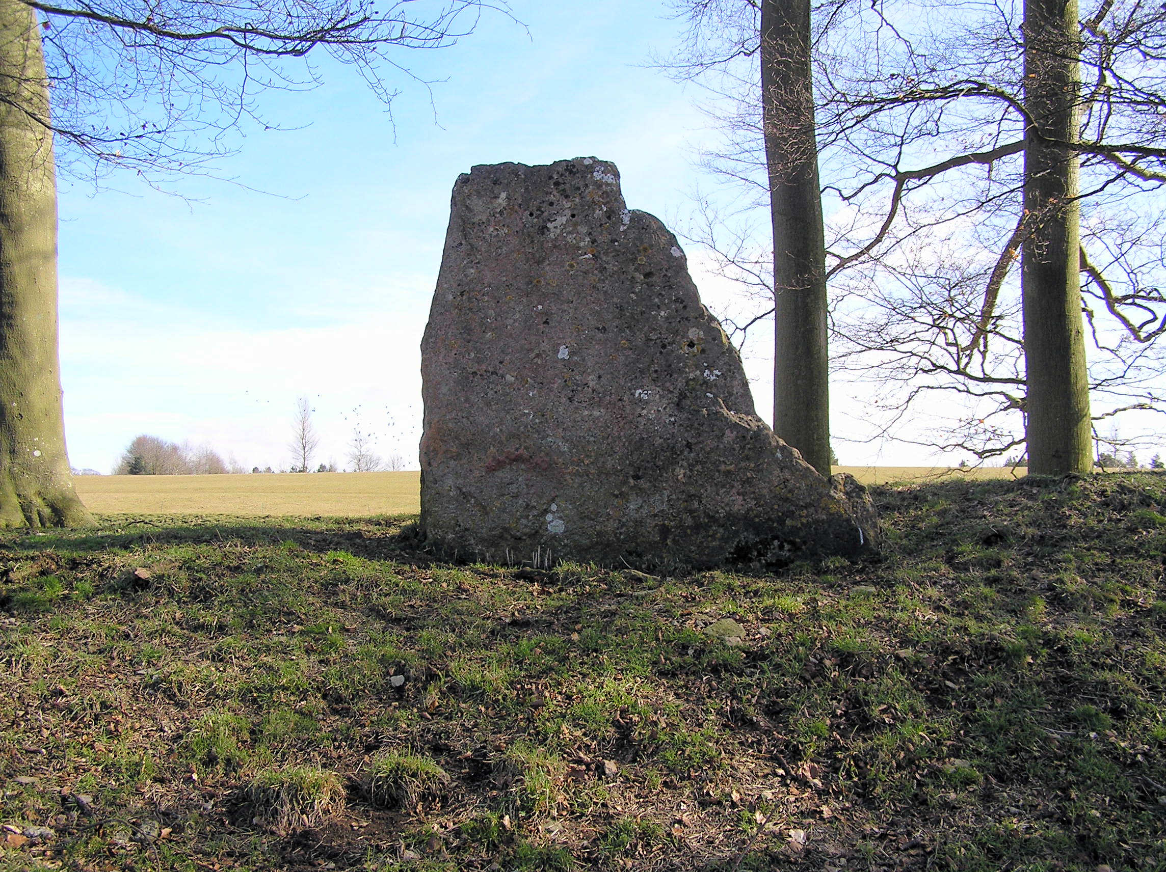 Tingle Stone Probably the remains of a chambered long barrow with a single stone now standing on top of the mound, in the Gatcombe Park Estate